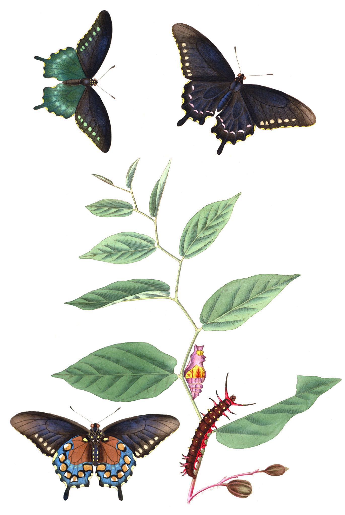 Pipevine Swallowtail , Battus philenor, on Virginia Snakeroot, Aristolochia serpentaria, hand-colored engraving